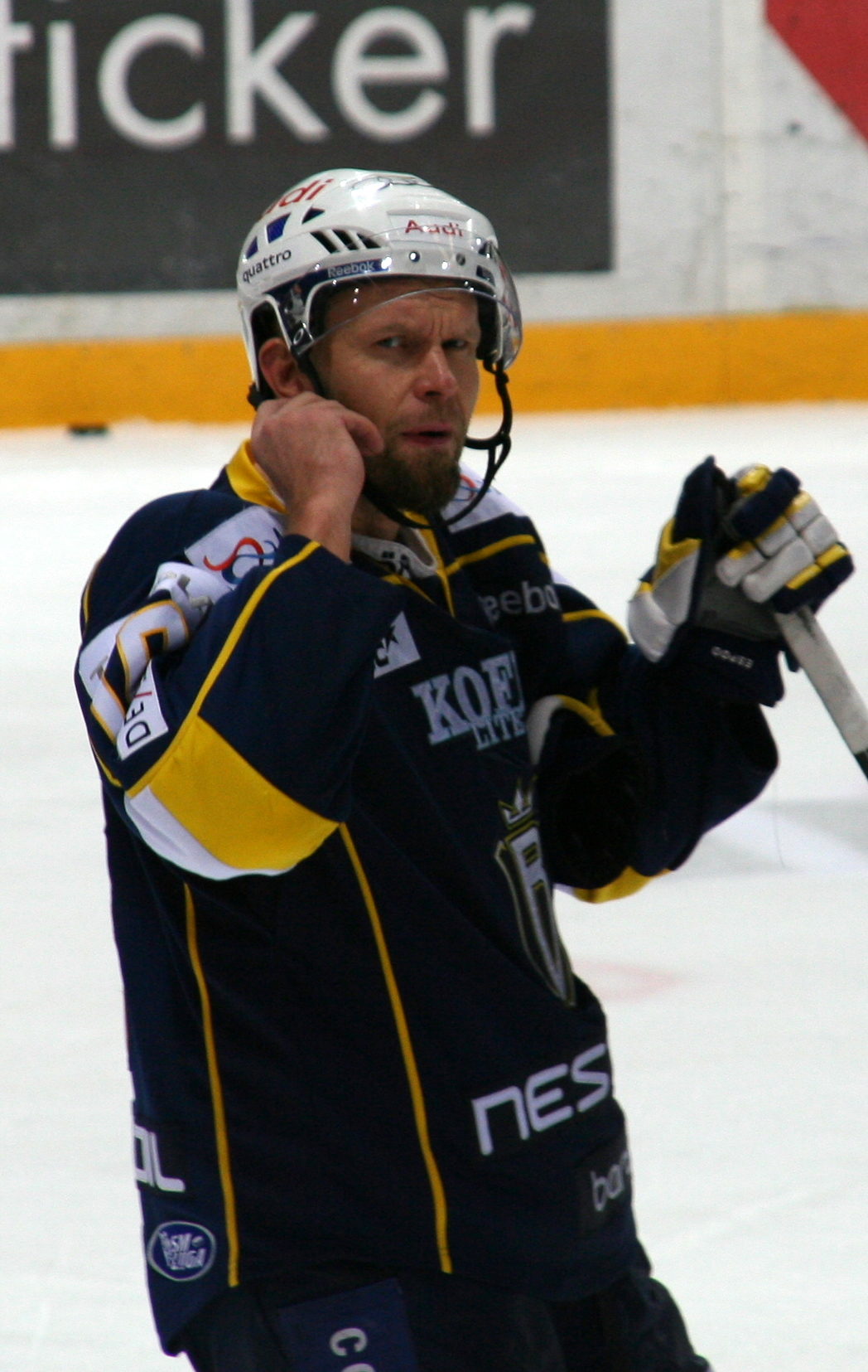 Ice Hockey Team Espoo Blues' Defender #10 Jere Karalahti.